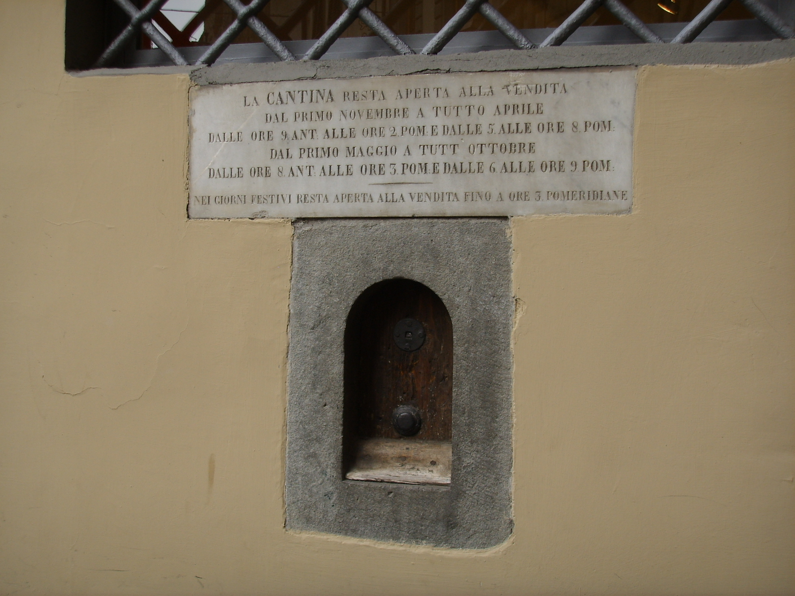 Via del Sole, wine selling plate, in Florence Italy